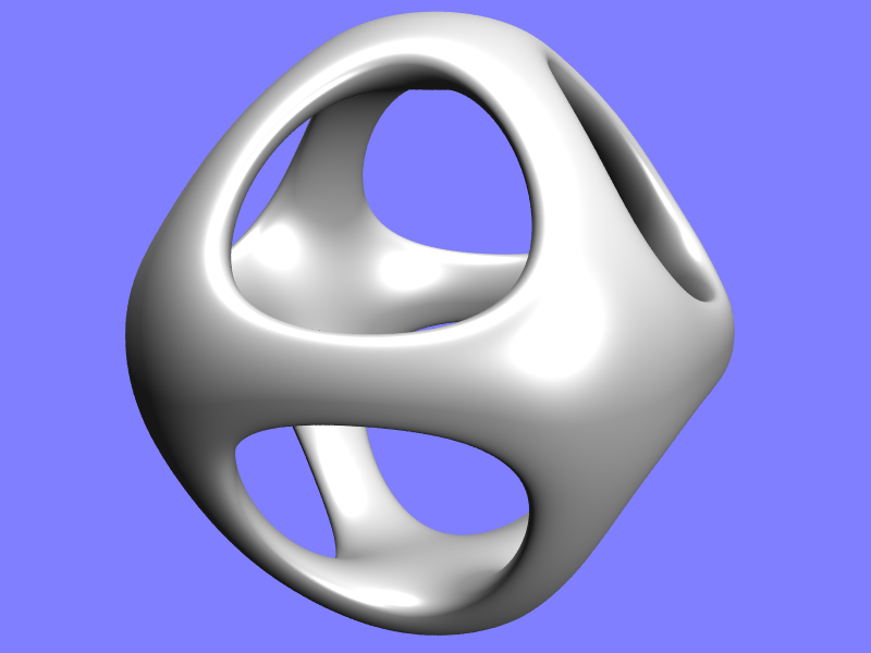 The Orthocircles Surface has the equation ((x^2+y^2-1)^2 + z^2) * ((y^2+z^2-1)^2 + x^2) * ((z^2+x^2-1)^2 + y^2) - a^2*(1+b*(x^2+y^2+z^2)) In this case a=0.06, b=2